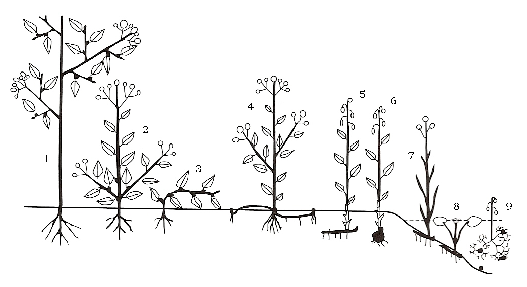 Life forms after Raunkiaer (1907): 1: Phanerophyte; 2+3: Chamaephyte; 4: Hemicryptophyte; 5+6: Geophyte; 7: Helophyte; 8+9: Hydrophyte. Therophyte and epiphyte are not shown